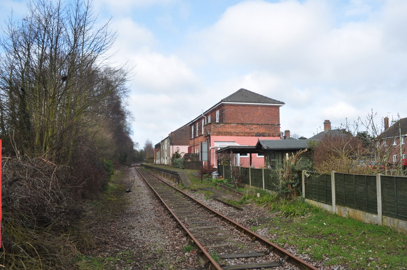 Leiston Railway Station This is the remains of the East Suffolk lines Aldburgh branch. Opening in June 1859 to Leiston and August 1860 to Aldburgh. After closure to passengers on 12th September 1966 the line was lifted 1 mile east of the town. However the remaining 5.5 mile stub is used for Sizewell A nuclear trains, taking spent fuel to Sellafield. All the fuel will have been cleared by 2012, more use may be required with the building of Sizewell C (and d?) after that the future is uncertain.